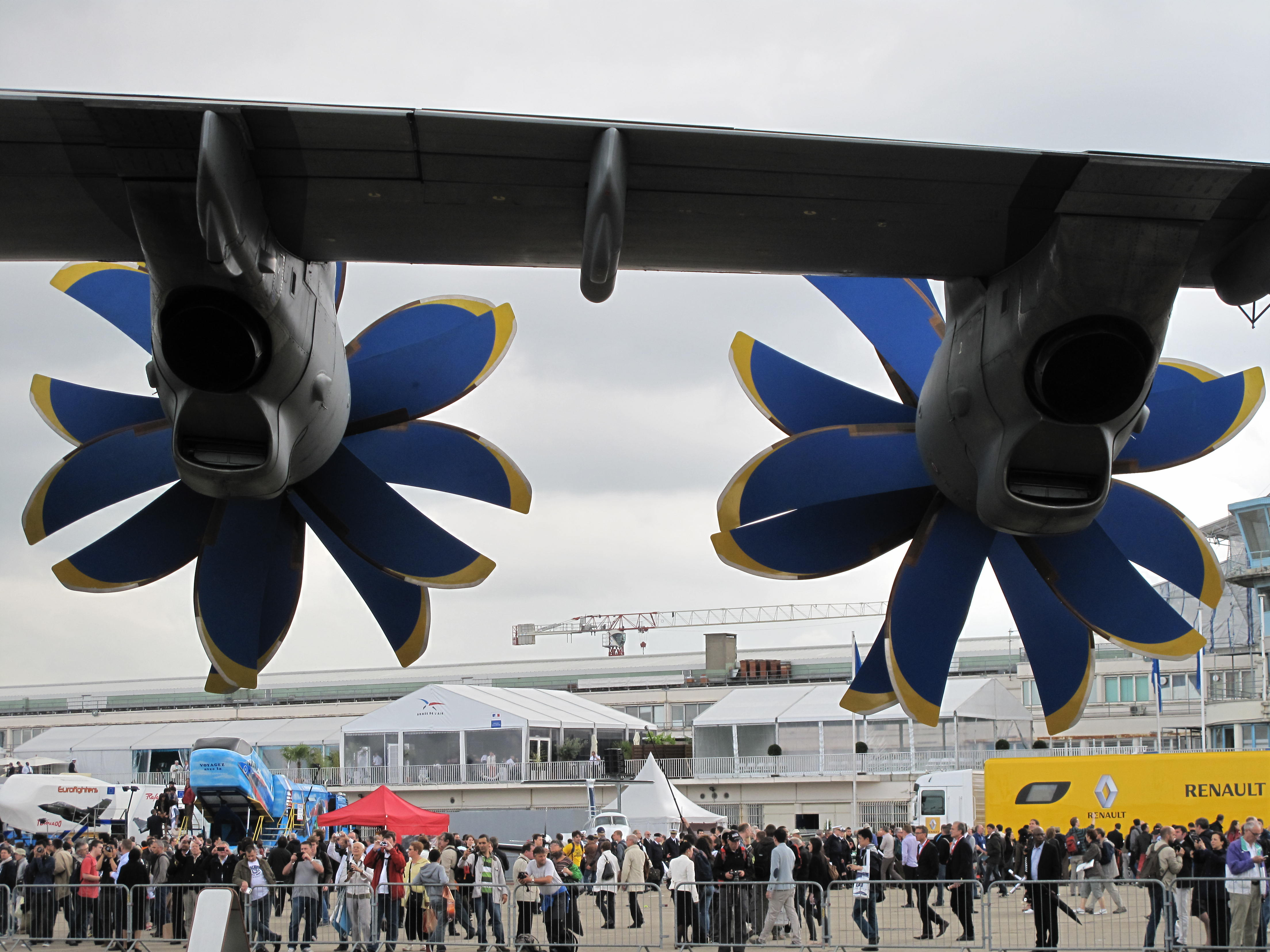 Engines of the Ukrainian Antonov AN-70 at Paris Air Show 2013